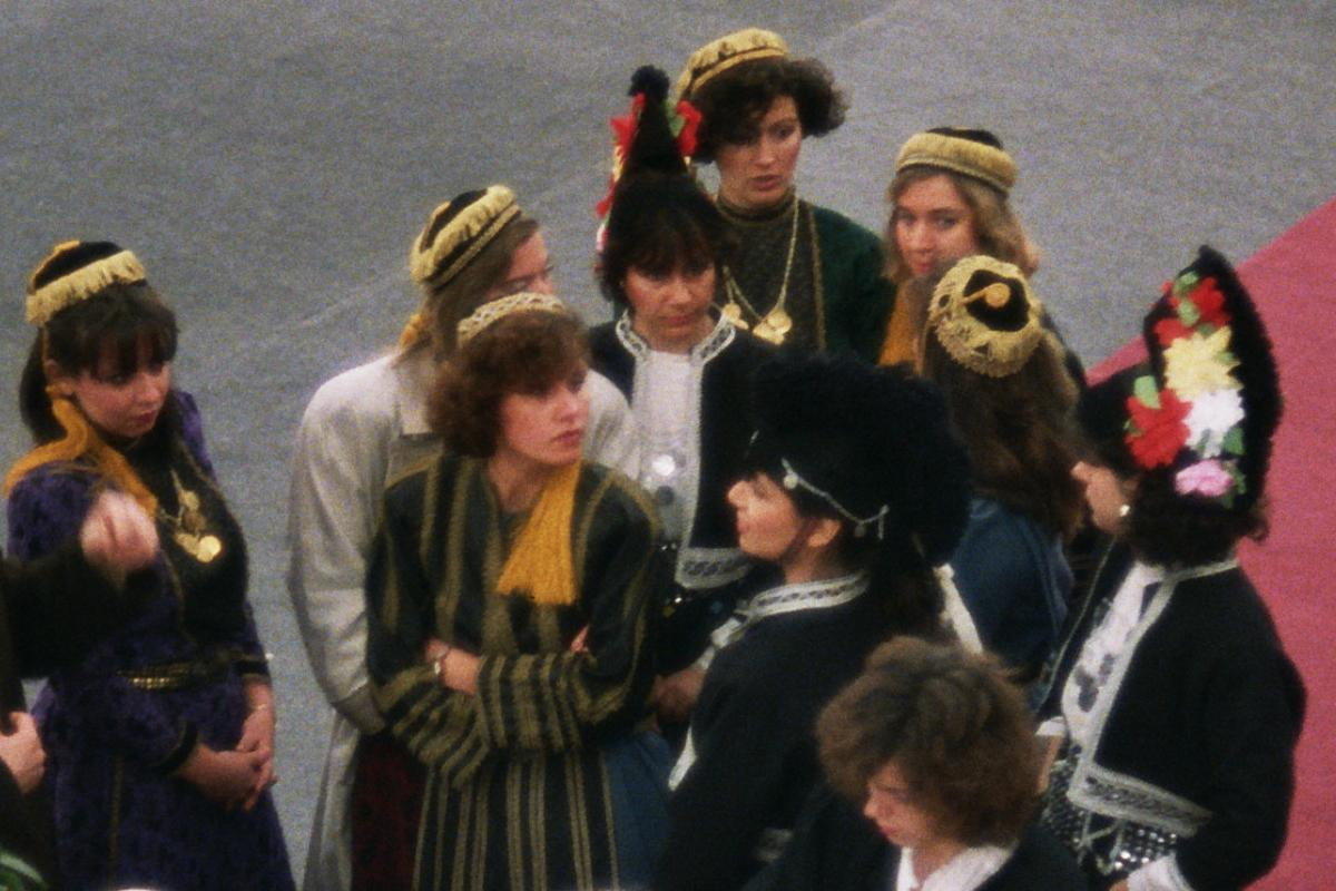 National costumes, Chess Olympiad 1988 in Thessaloniki, Photographer Gerhard Hund.